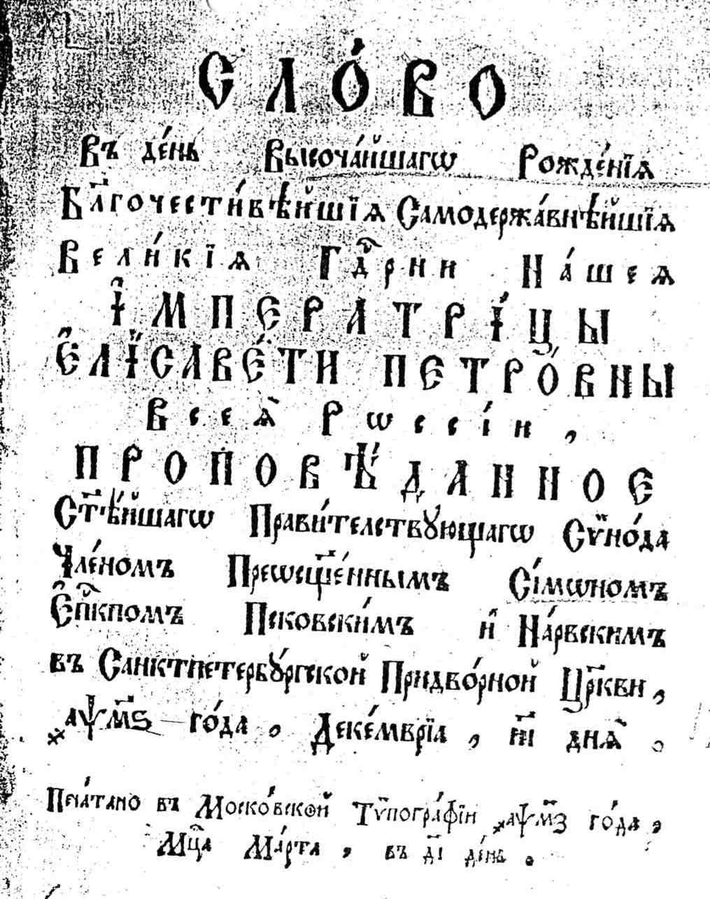 Homily of Simon Todorsky, printed in Moscow.